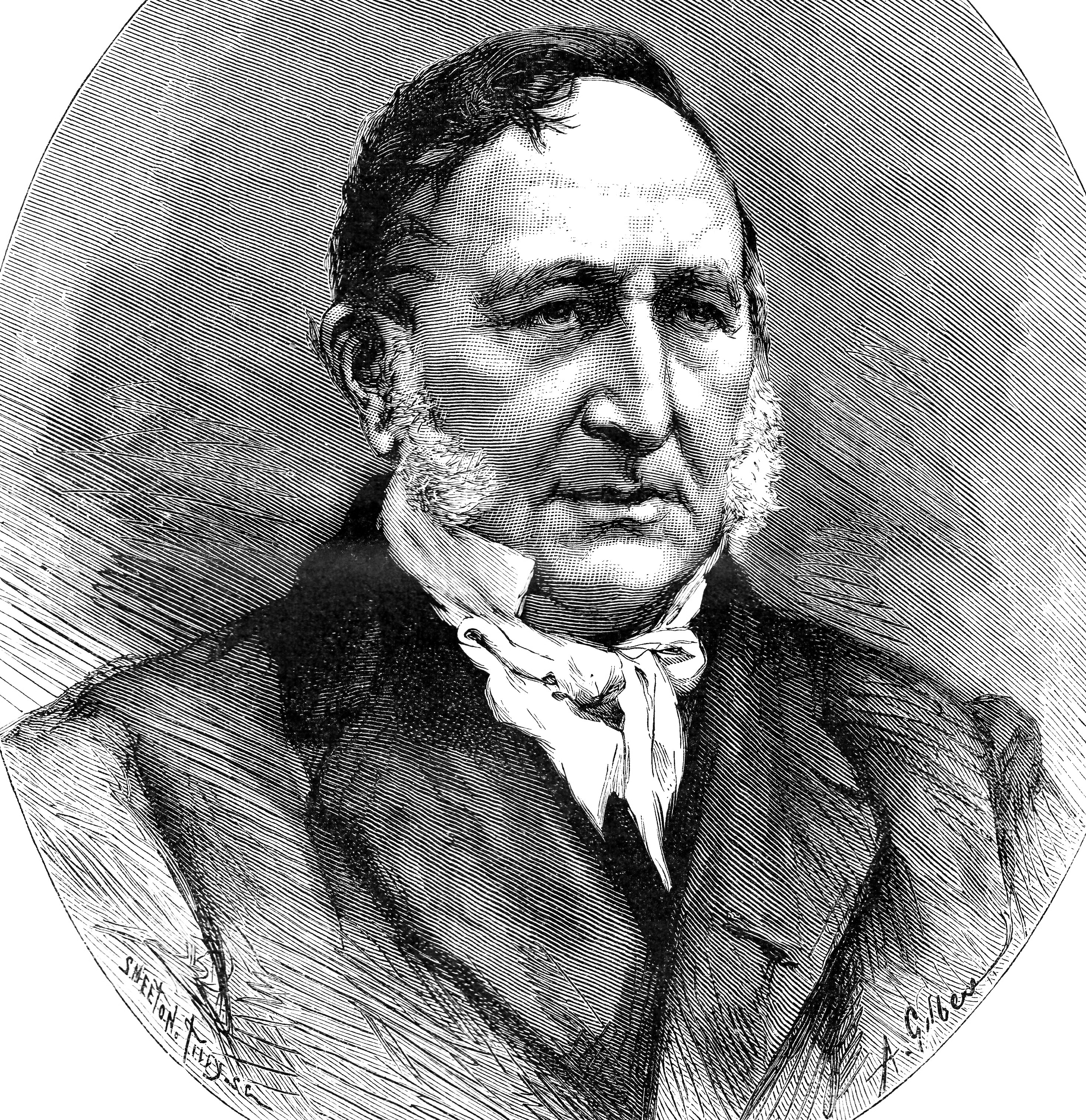 Dr. G.J. Mulder